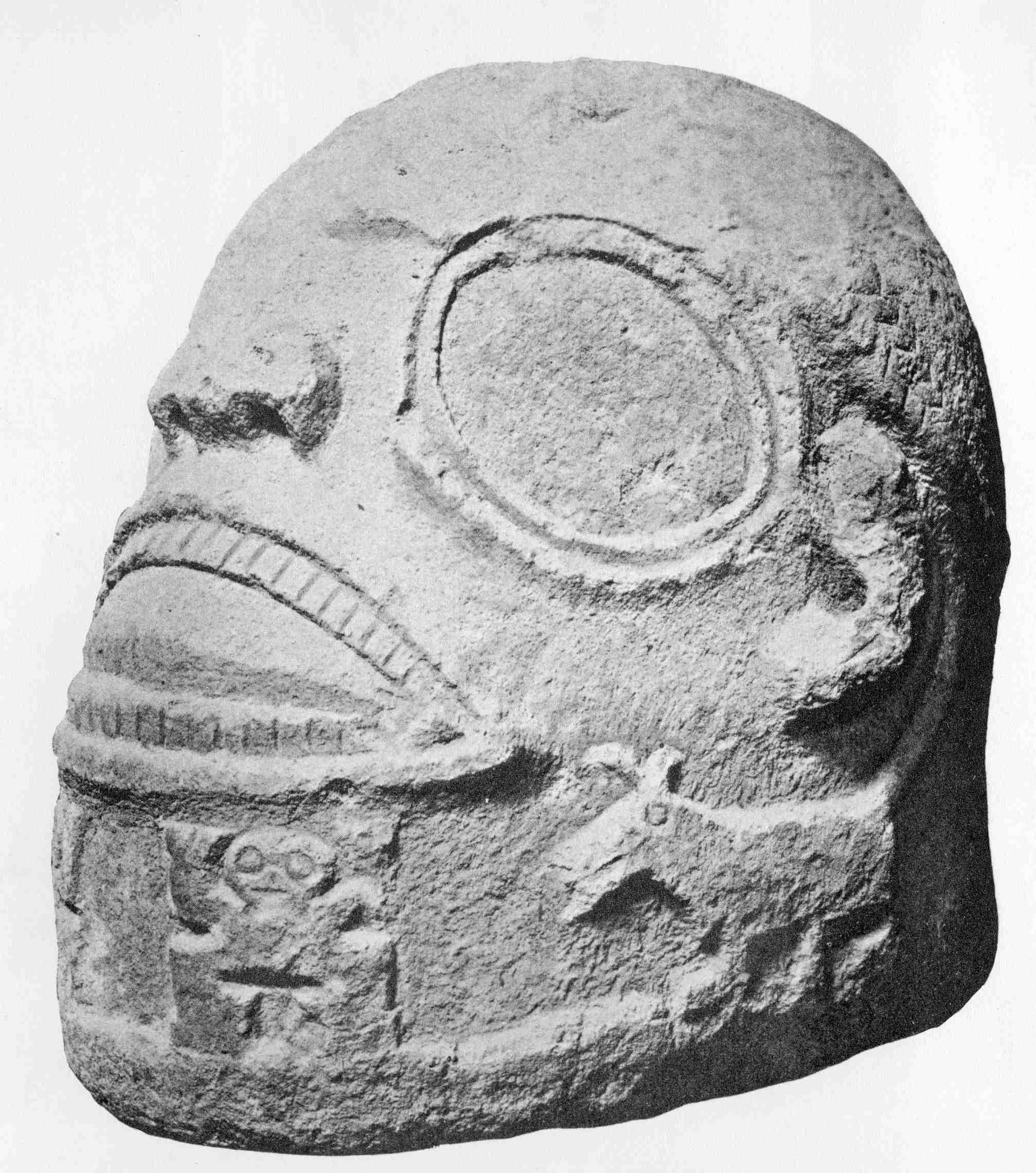 Opferkopf Manuiotaa from K.v.d.Steinen, Marquesaner Bd3